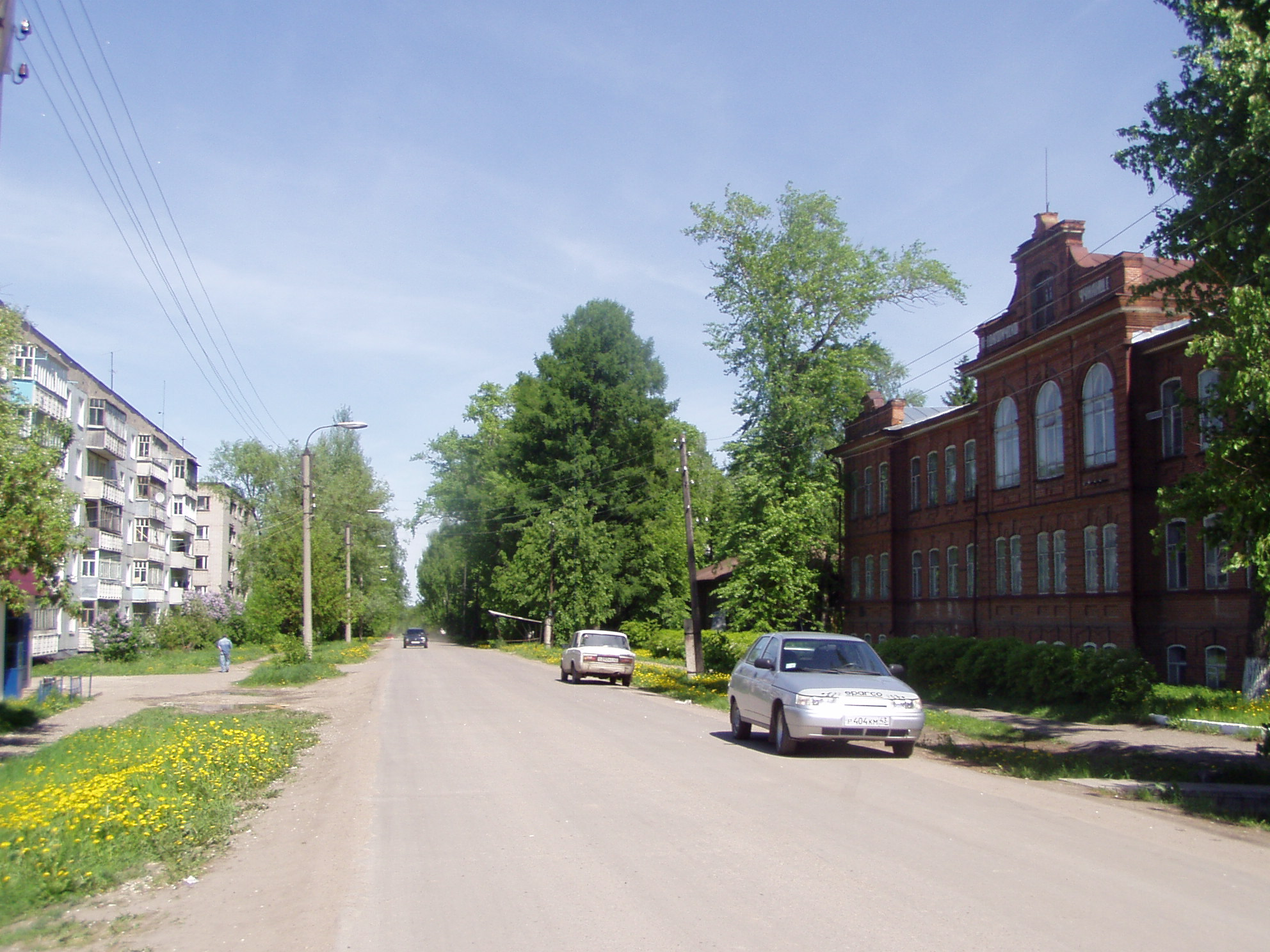 Krupskaya (Solominskaya) street, Sovetsk (Kukarka), Kirov (Vyatka) region, Russia